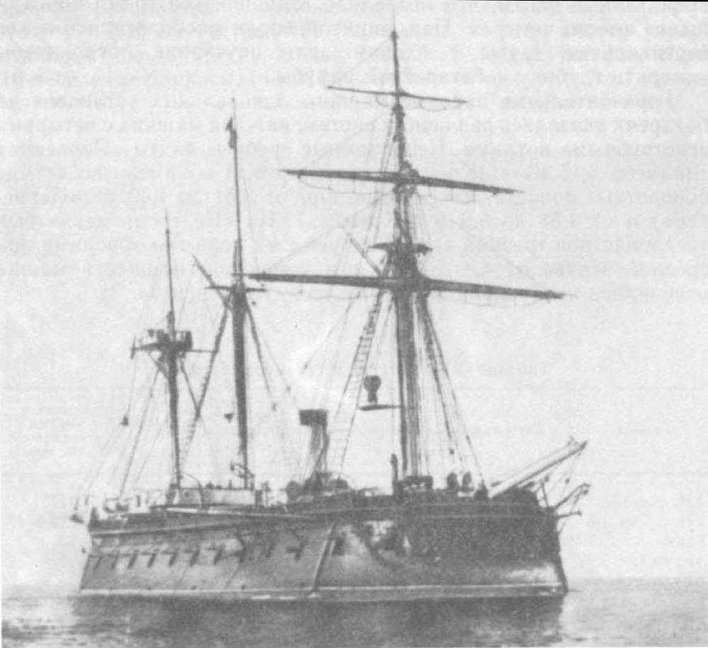 Floatting battery Pervenets (1863)